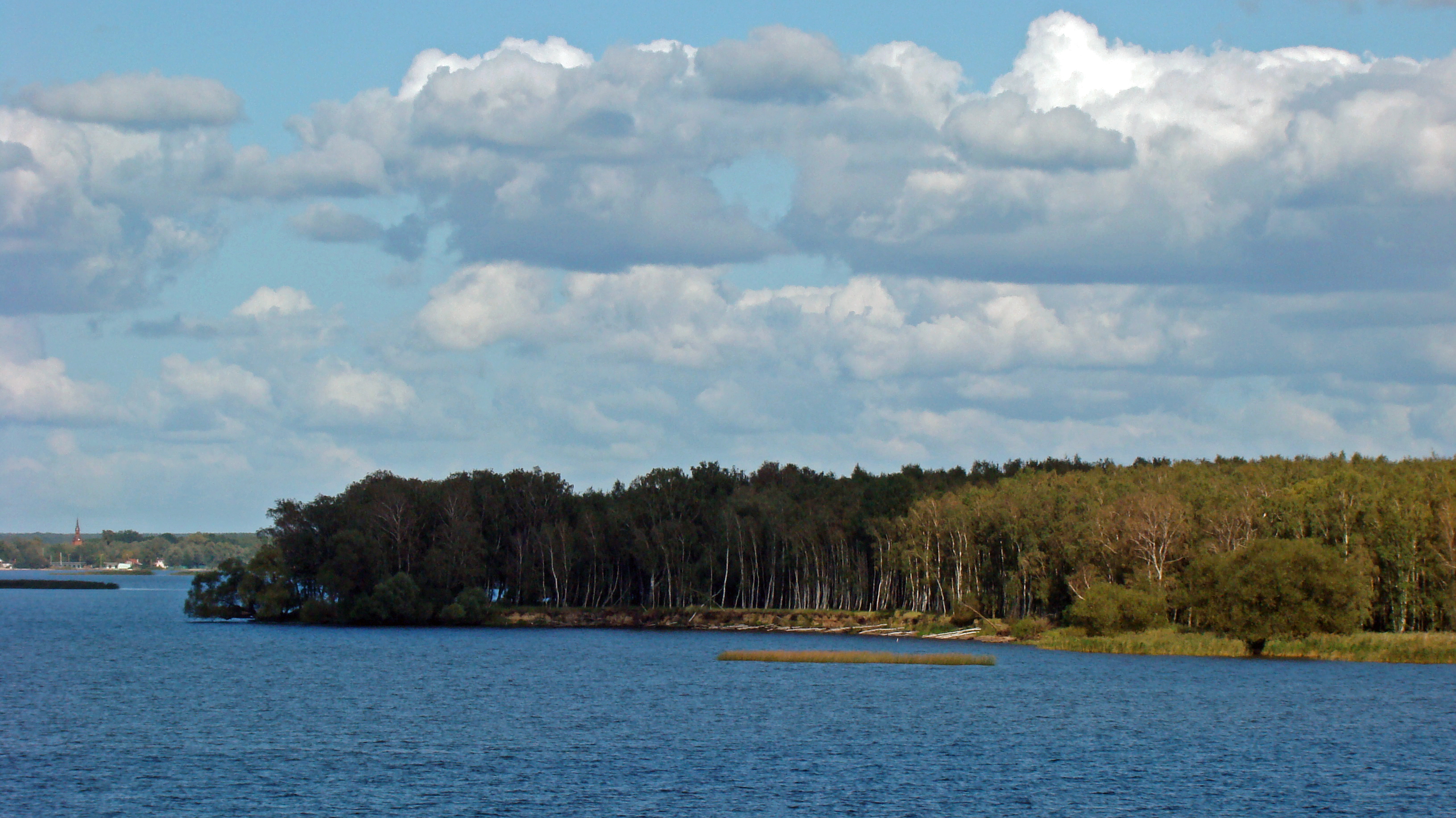 Nature reserve "Olszanka",West Pomeranian Voivodeship, Poland